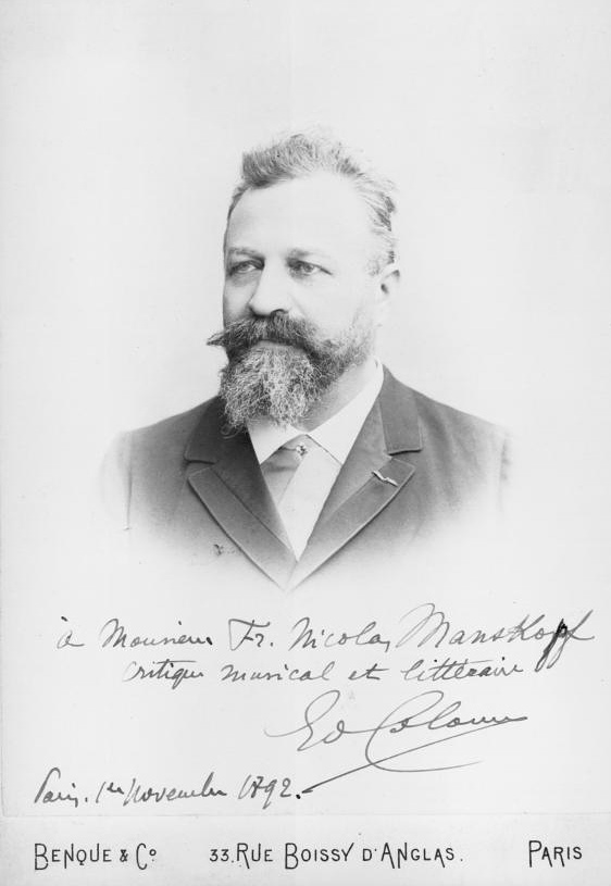 Depicted person: Édouard Colonne – French conductor and violinist